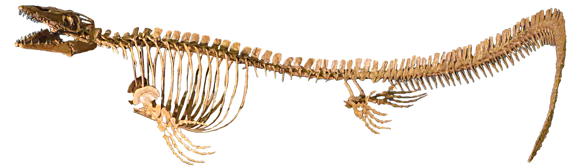 Triebold Paleontology's Platecarpus tympaniticus